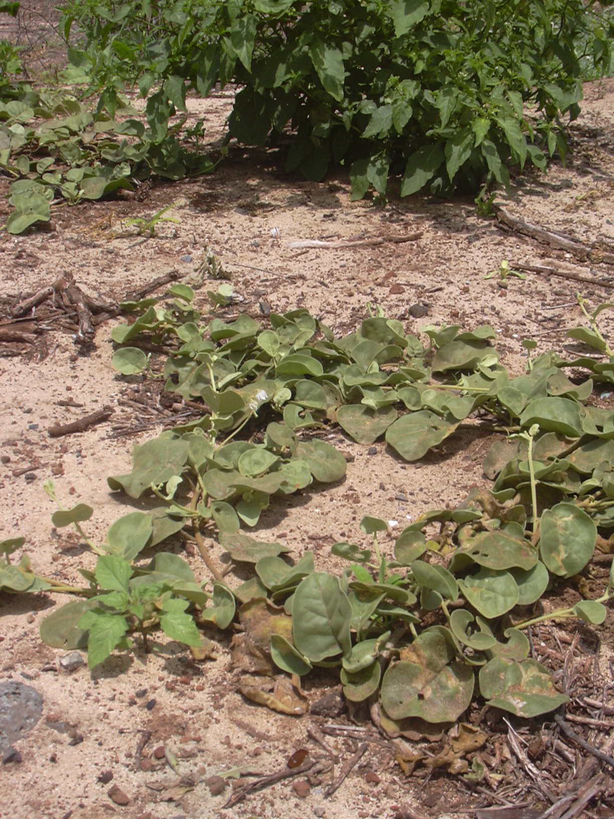 Solanum nelsonii (planting). Location: Maui, Kanaha Beach